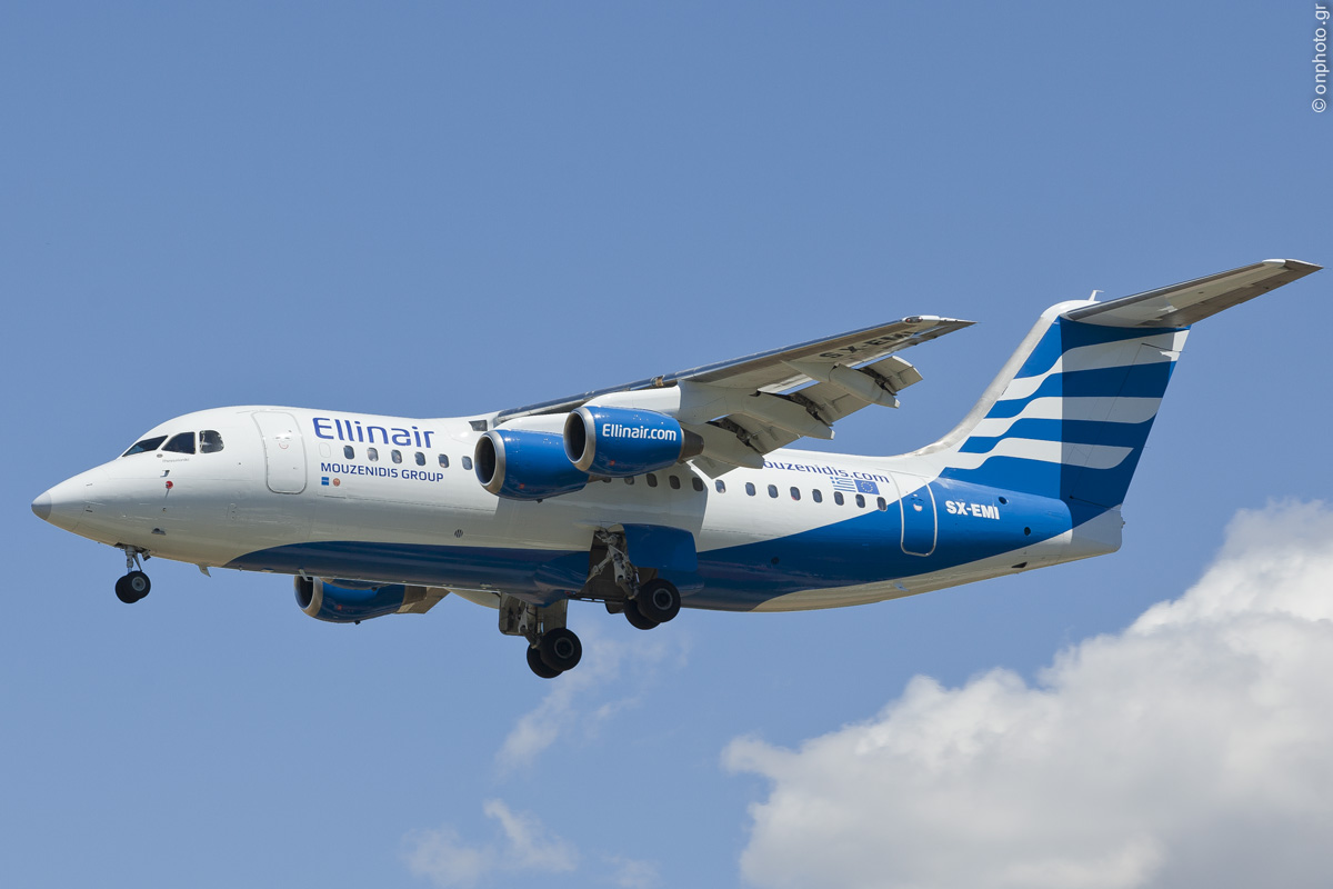 Avro RJ85 called "Thessaloniki"